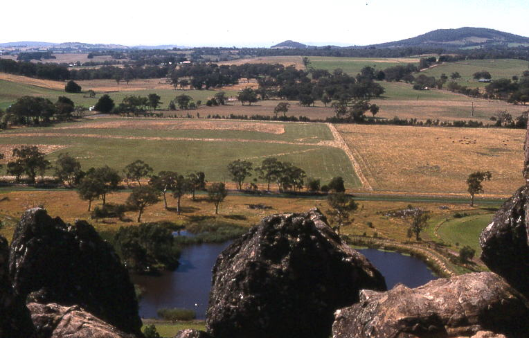 hanging rock, australia